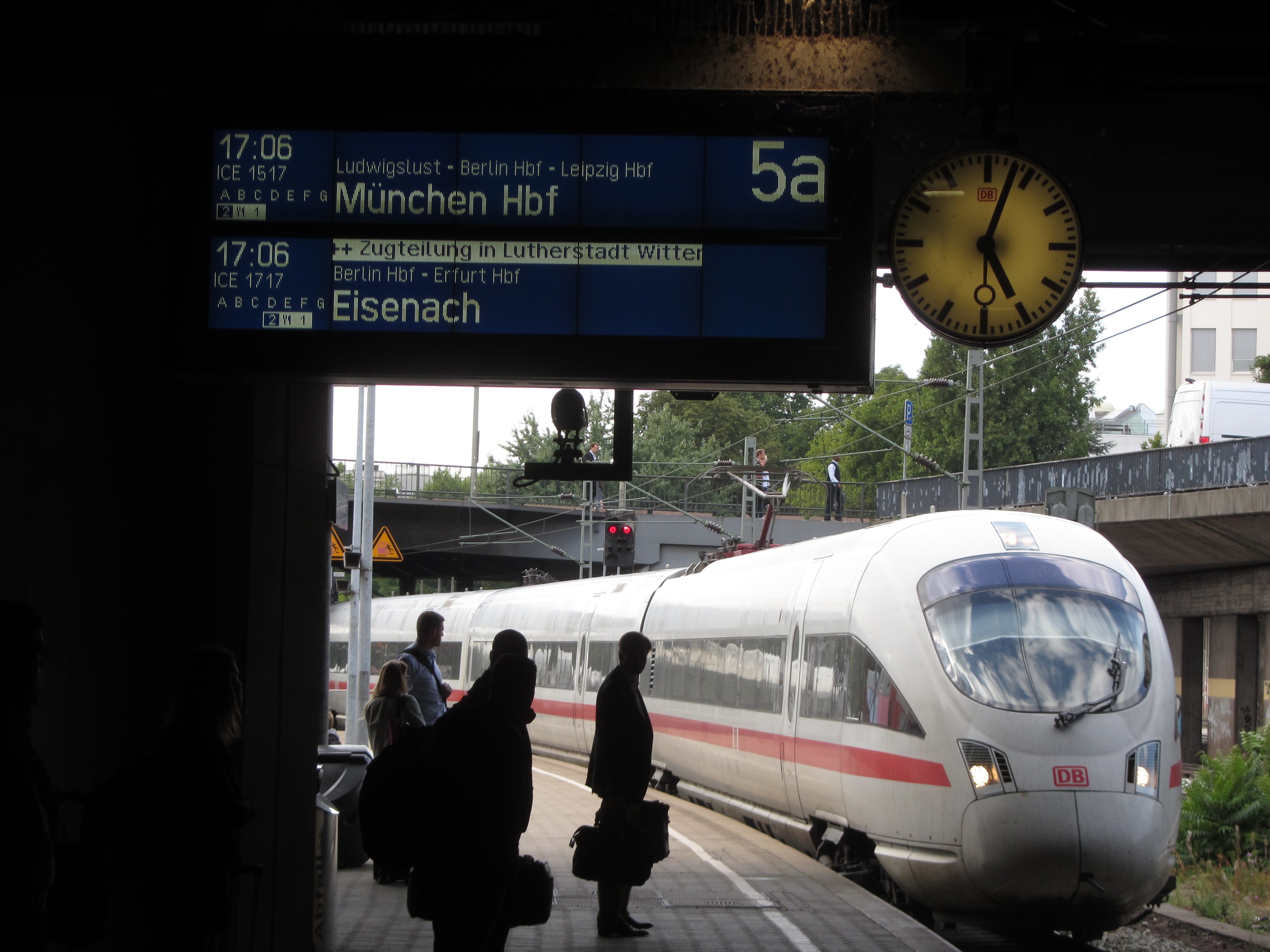 Double traction of ICE-T (Class 411) enters Hamburg central station as ICE 1517/1717 with destination Eisenach resp. Munich, both via Berlin. The two units will separate in Lutherstadt Witenberge